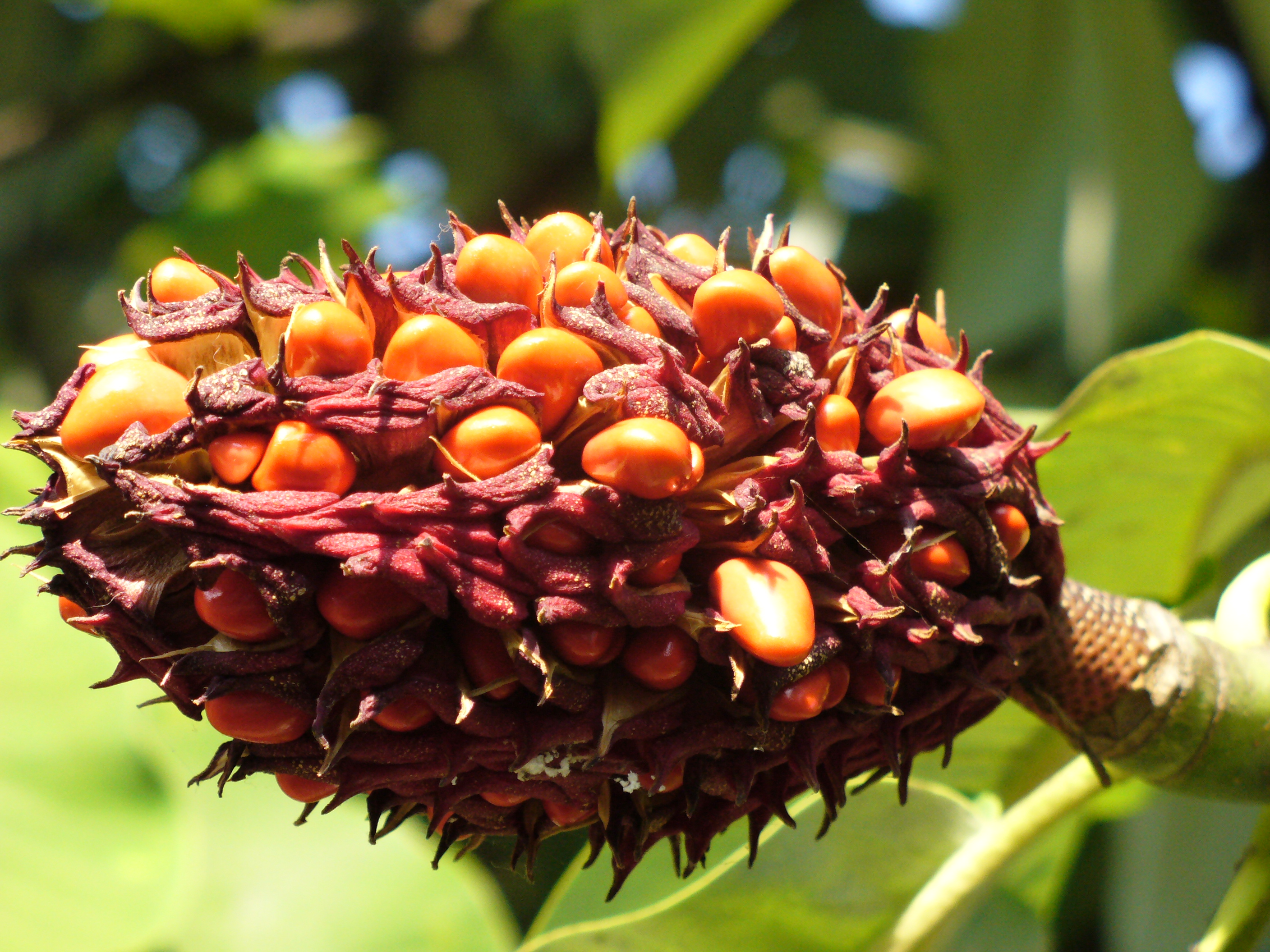 Photograph of Magnolia obovata (fully ripened Fruit)